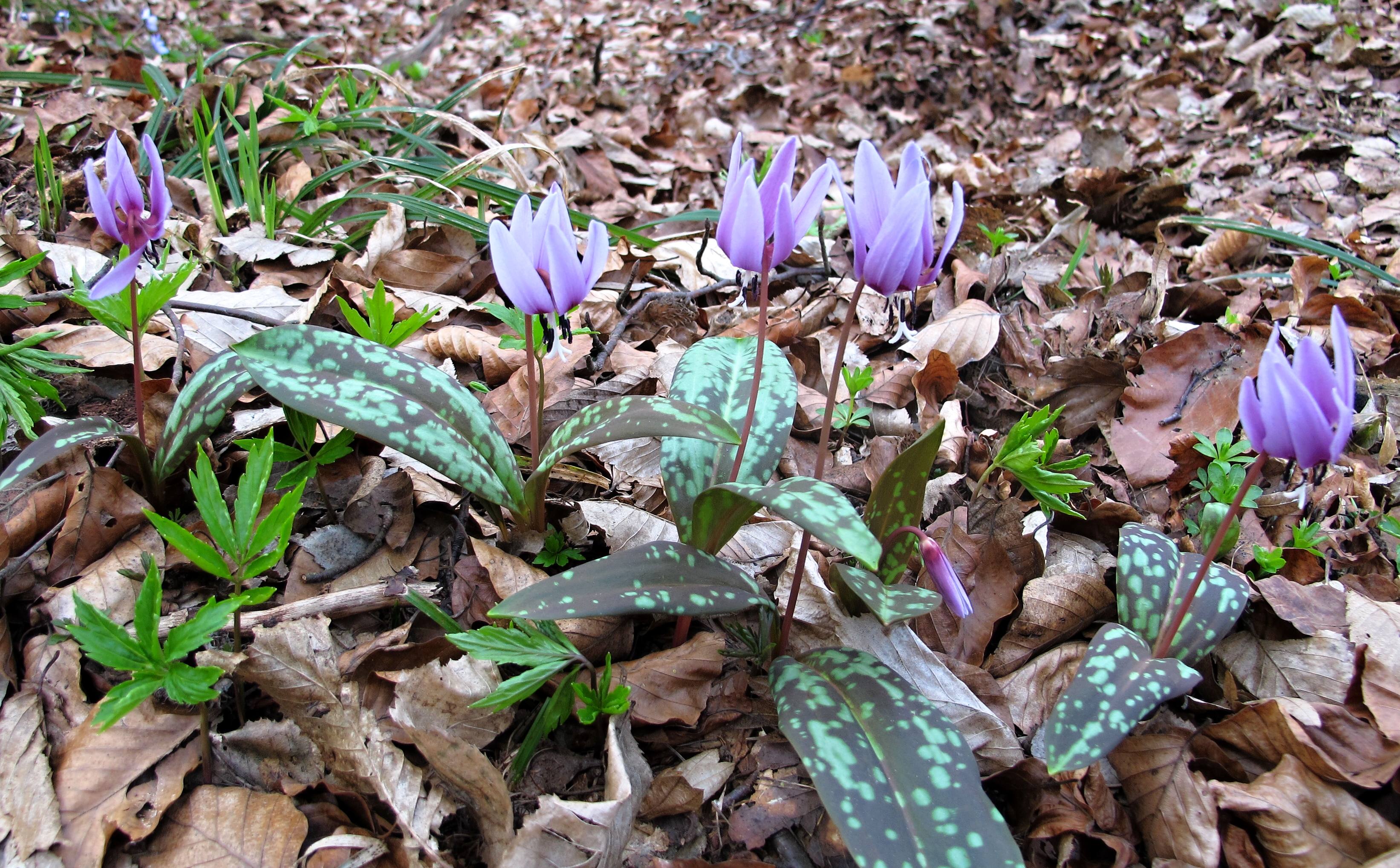 Erythronium dens-canis in national natural monument Medník near Hradištko pod Medníkem, Prague-West District (Czech Republic)